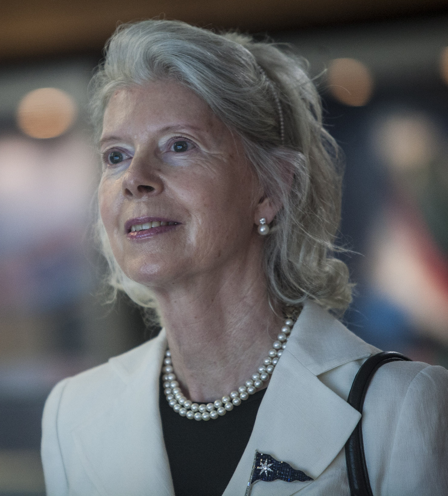 Photos from the namegiving ceremony of the first Triple-E vessel in Okpo, South Korea. The event took place on 14 June 2013. More on